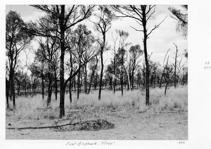 The effects of ringbarking (girdling) used to kill native woody weeds (Acacia argyrodendron) to improve grazing land. Tiree Station, South East of Hughenden, Queensland, 1952. Original title: "First ringbark, Tiree."